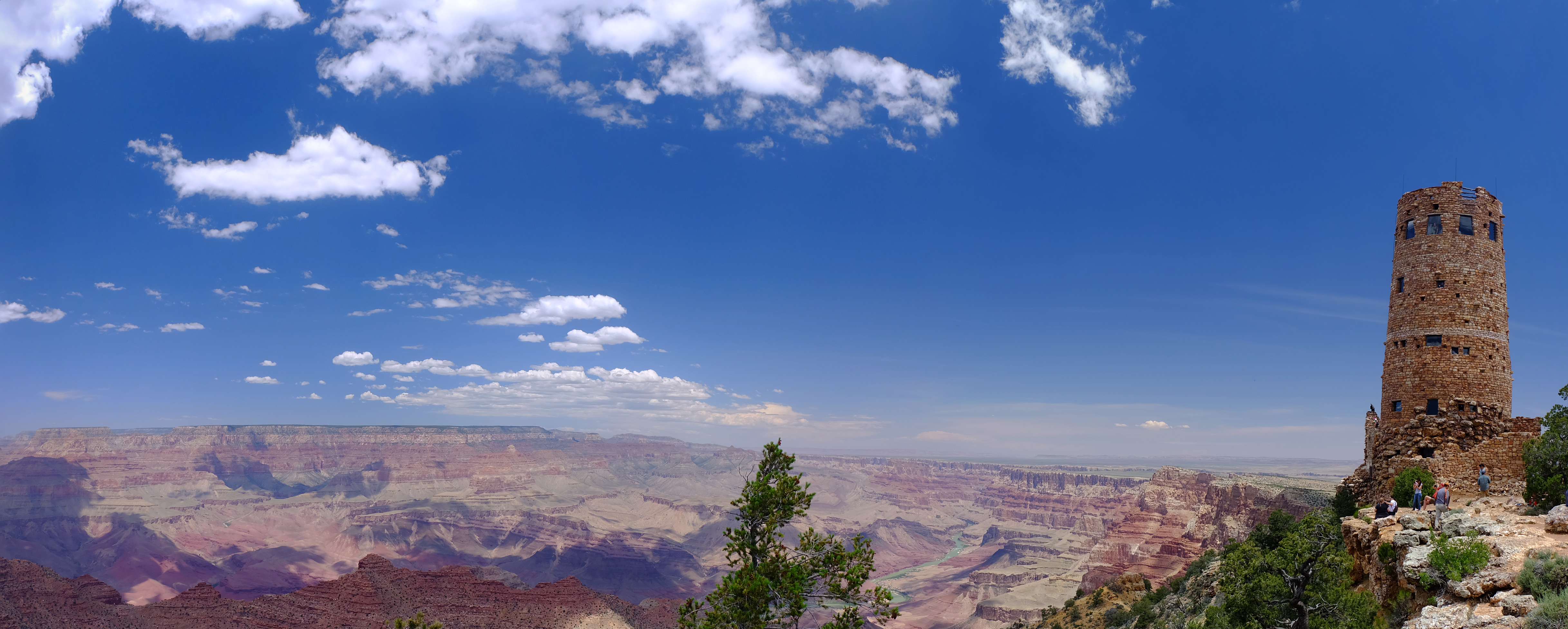 Desert View Watchtower, Grand Canyon, Arizona, USA